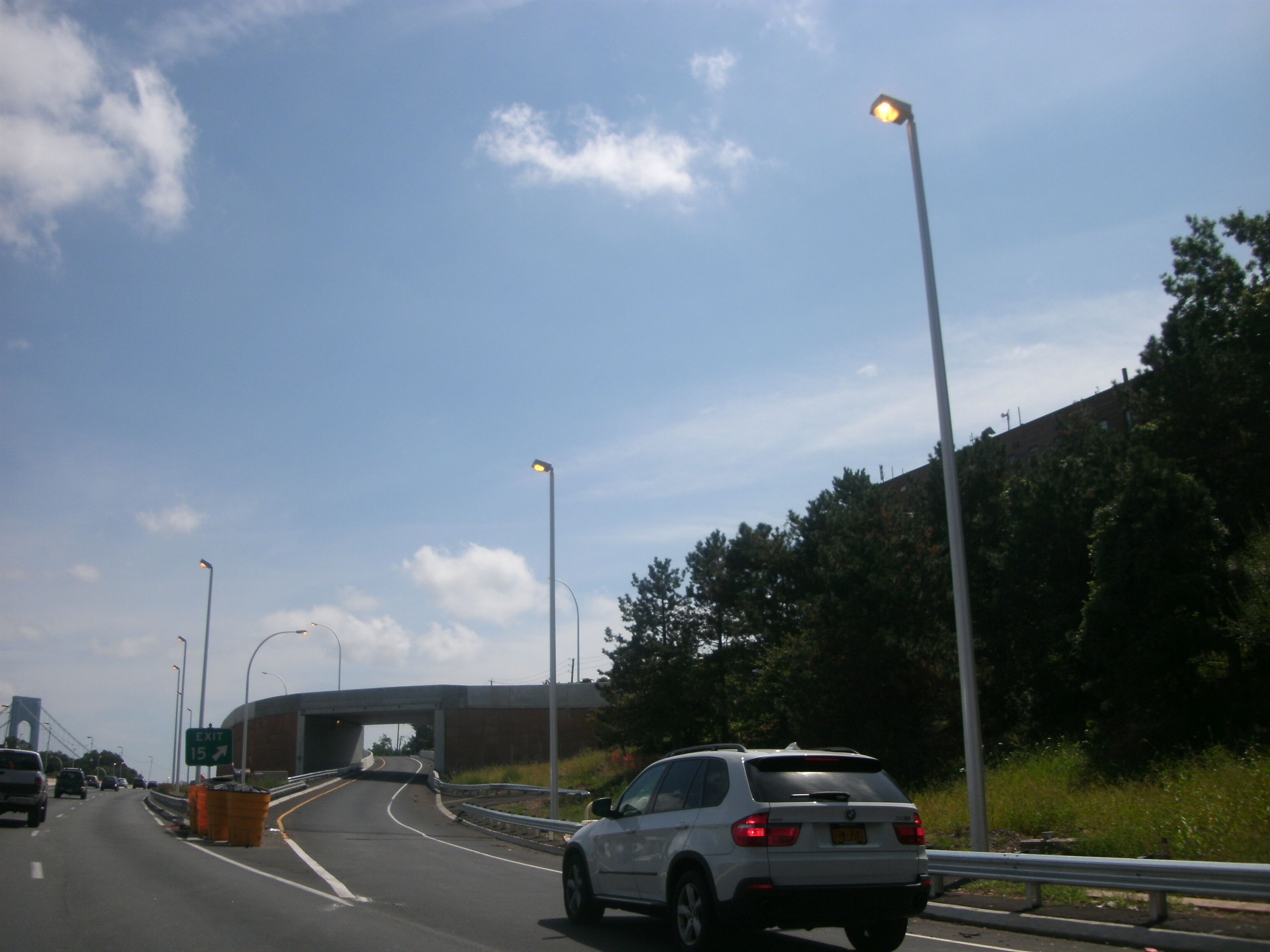 The brand-new ramp for Exit 15 on the Staten Island Expressway in Staten Island, New York